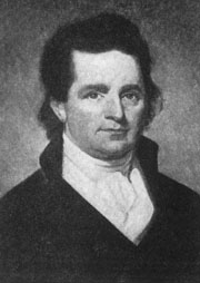 Philip Barton Key (1757-1815)